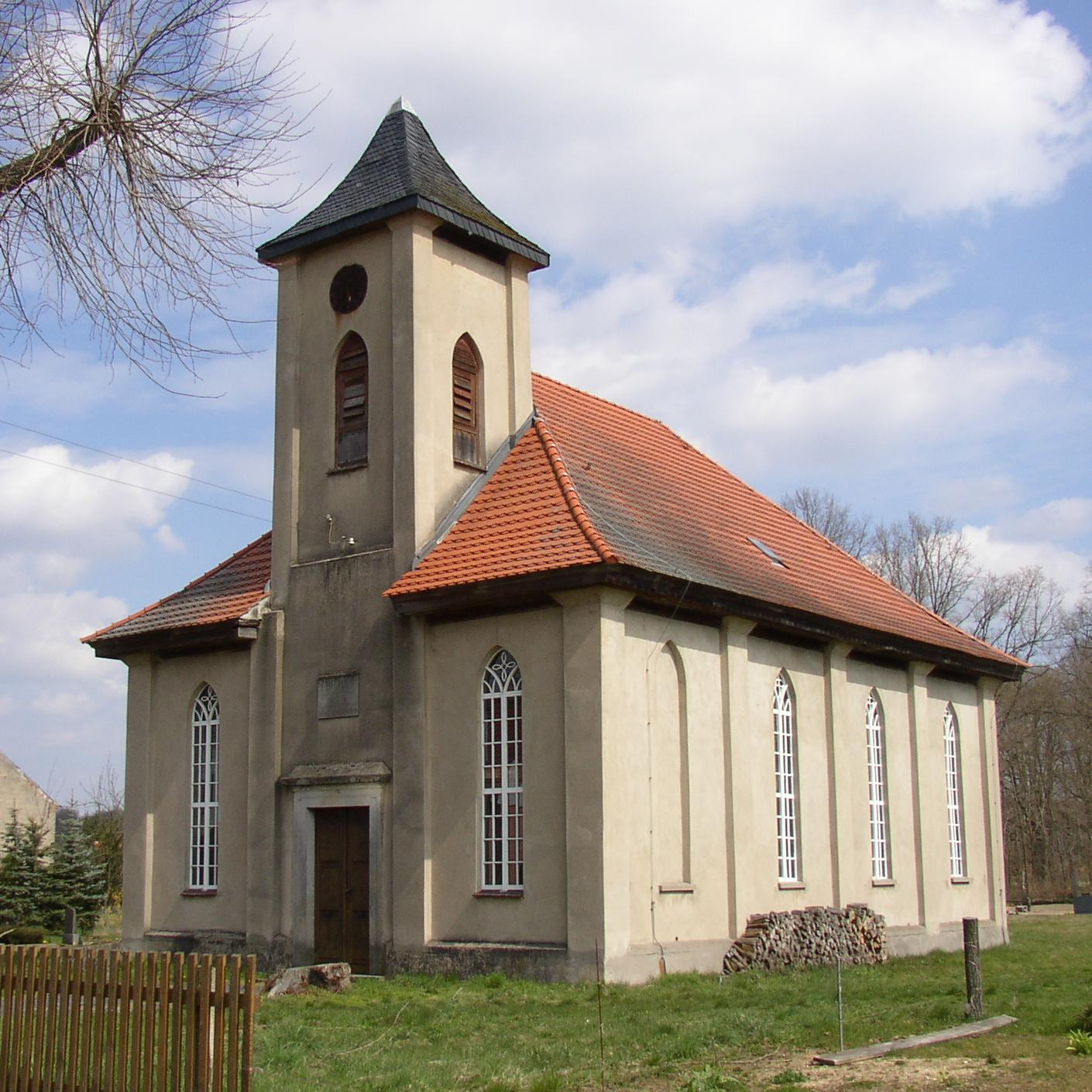 Church in Serno in Saxony-Anhalt, Germany